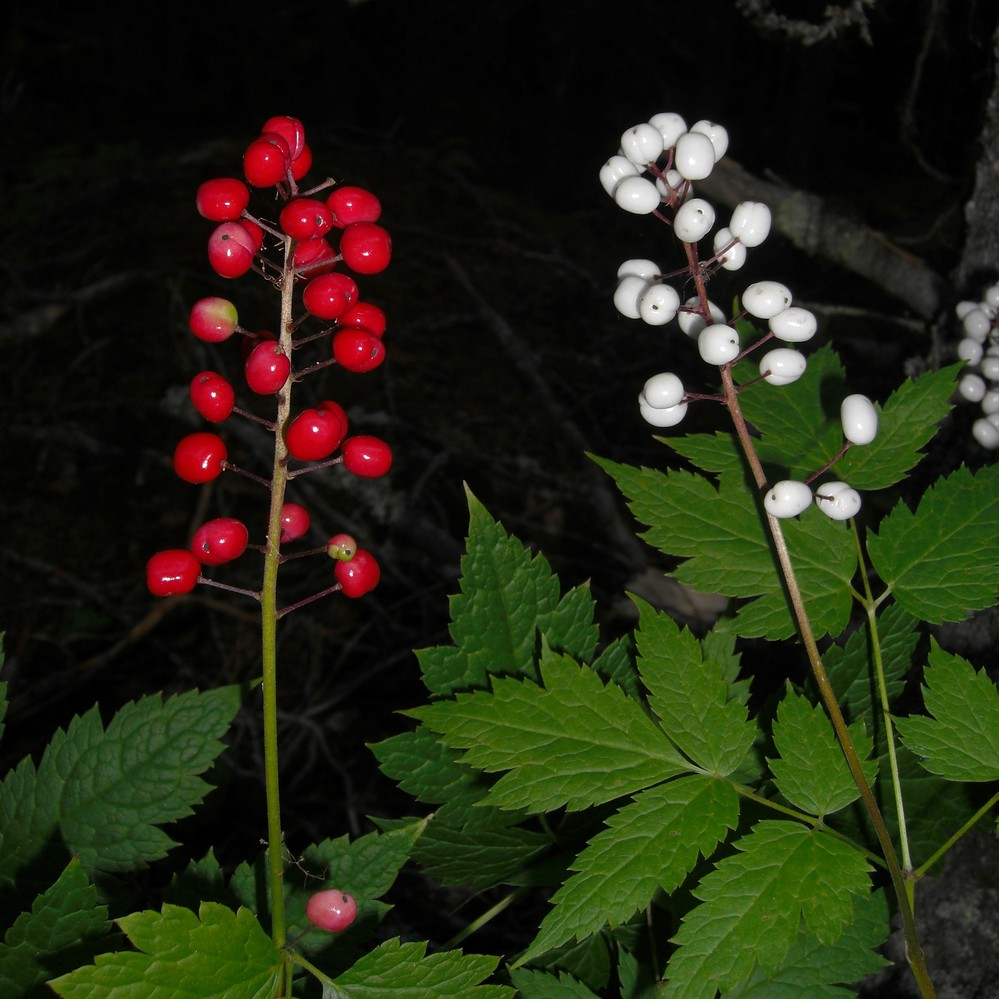 Actaea rubra (Aiton) Willd. 20090813.1 & 2 Battle Mountain, Wells Gray Park, BC Nice shot of both form neglecta (white) and the standard form (red) growing side-by-side.